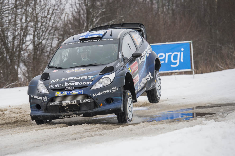 Rally Sweden 2014 Ford Fiesta RS WRC,Jarmo Lehtinen,Kirkener 1,M-Sport Ford WRT,M-Sport Ford World Rally Team,Mikko Hirvonen,Motorsport,Rally,Rally Sweden,Rallye,Rallye Schweden,SS3,WP3